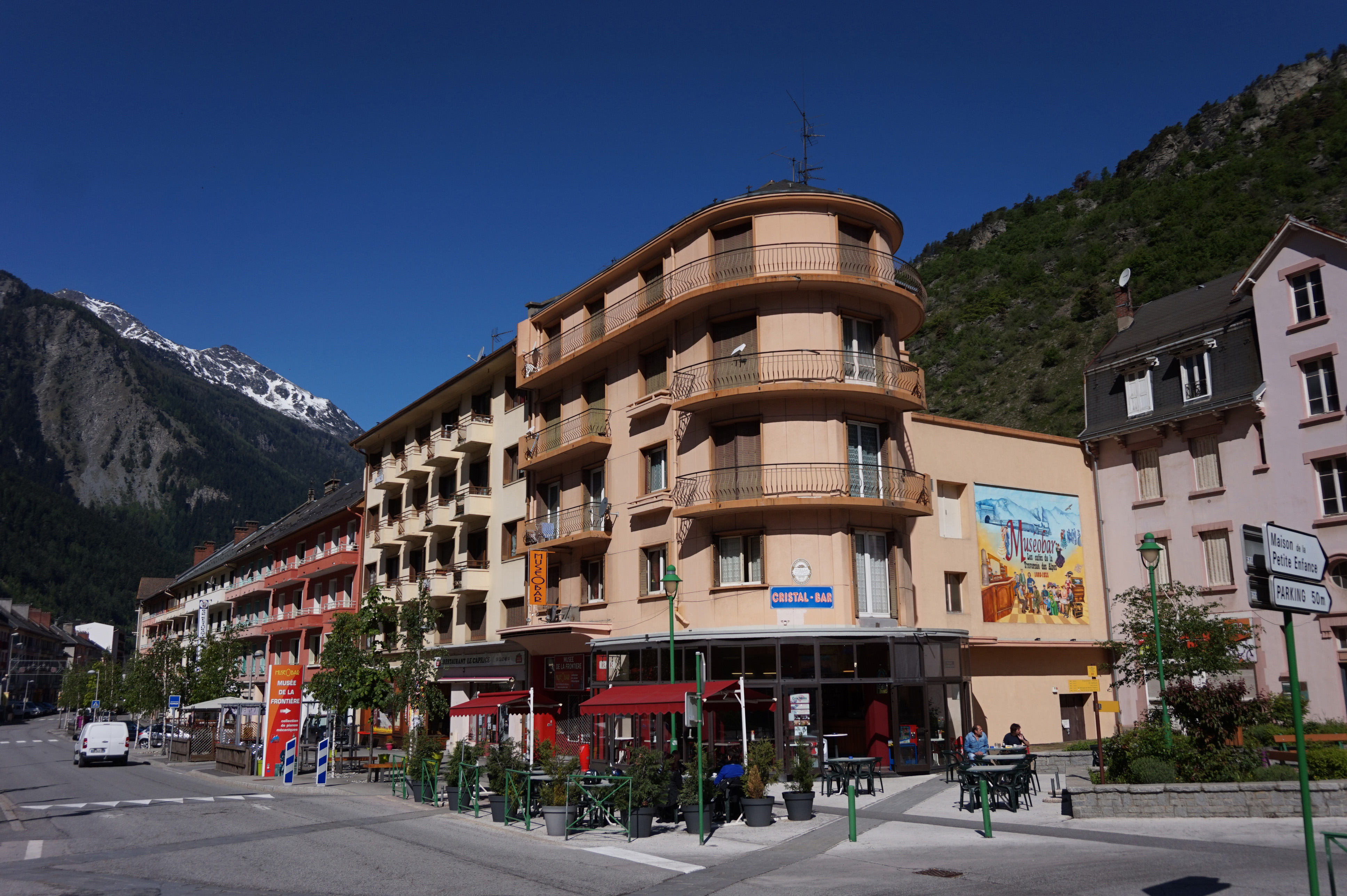 Rue de la République in Modane. This photograph was taken with a Sony Alpha a5000.